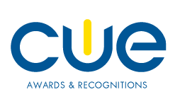 Computer-Using-Educators Logo